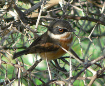 Cape Baits Batis capensis. Oom_Kosie took this picture in the Bontebok National Park in South Africa in July of 2007 with a Panasonic FZ-5 digital camera.